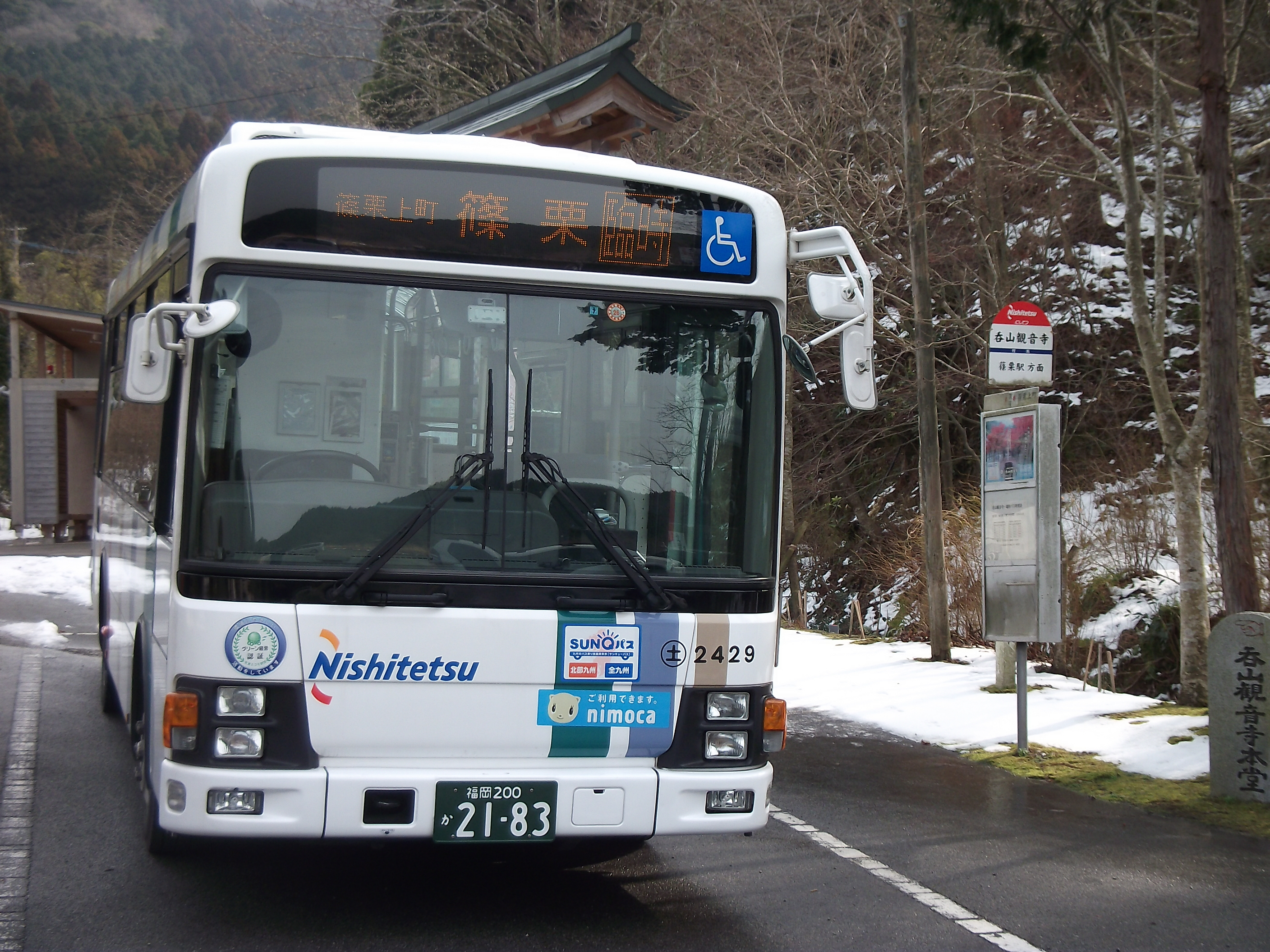 Nishitetsu_Extra_bus_at_Nomiyama_Kan-nonji